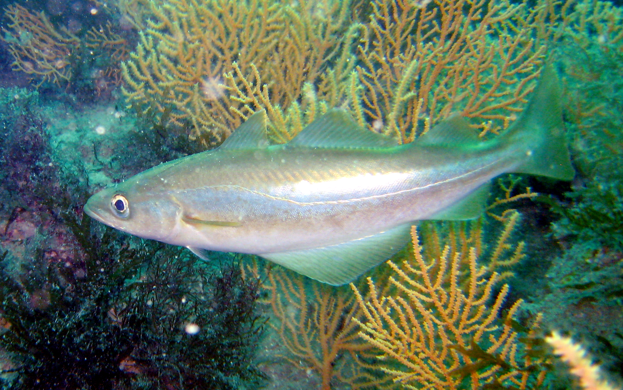 Pollachius pollachius, picture taken in Saint-Quay-Portrieux